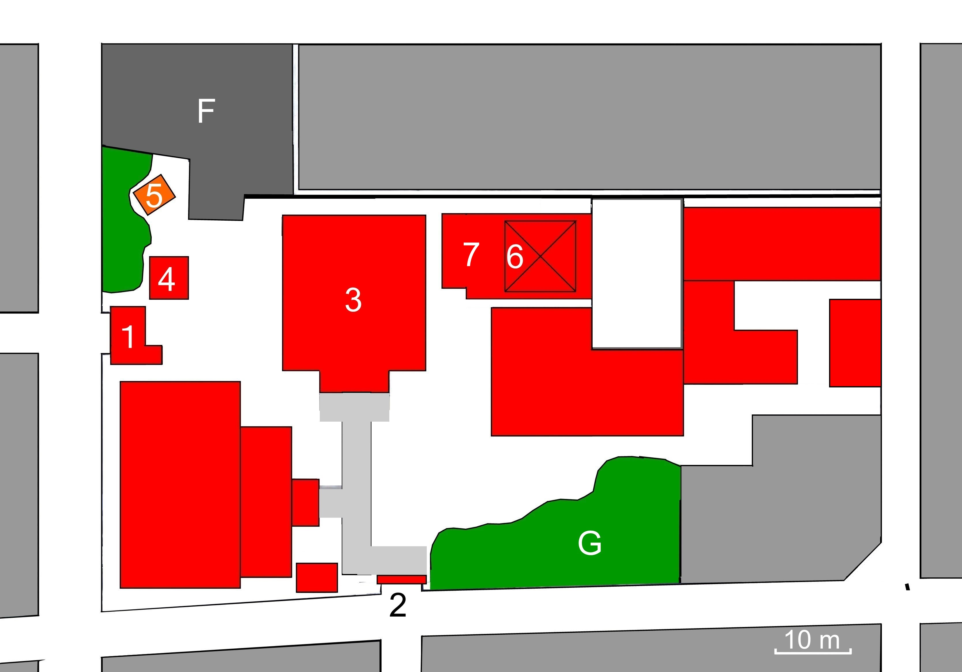 Layout of Taiyû-ji temple at Osaka, Japan